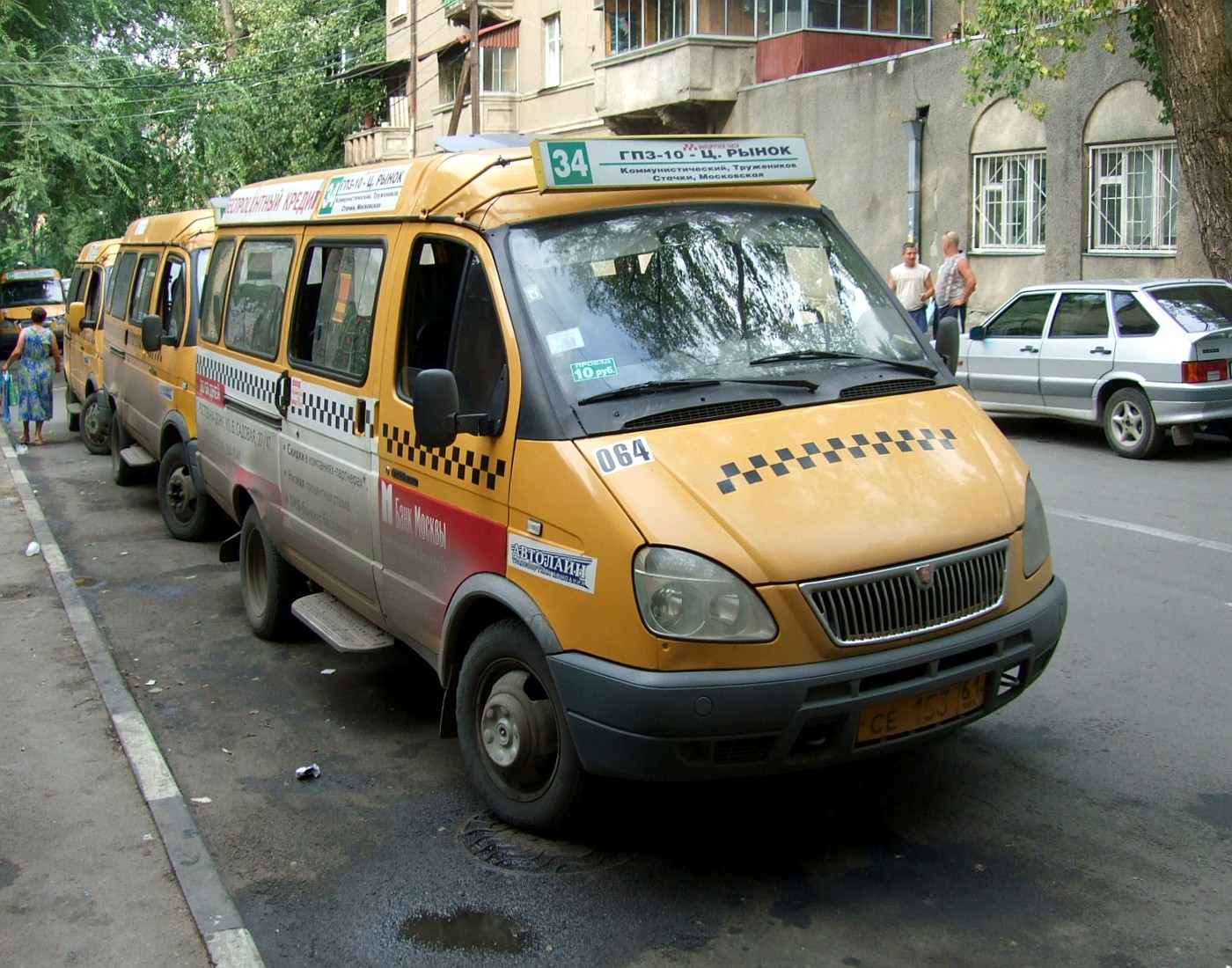 Marshrutka, line 34, in Rostov-on-Don, Russia. Manufacturer: GAZelle (reg. CE 153 61, #064).